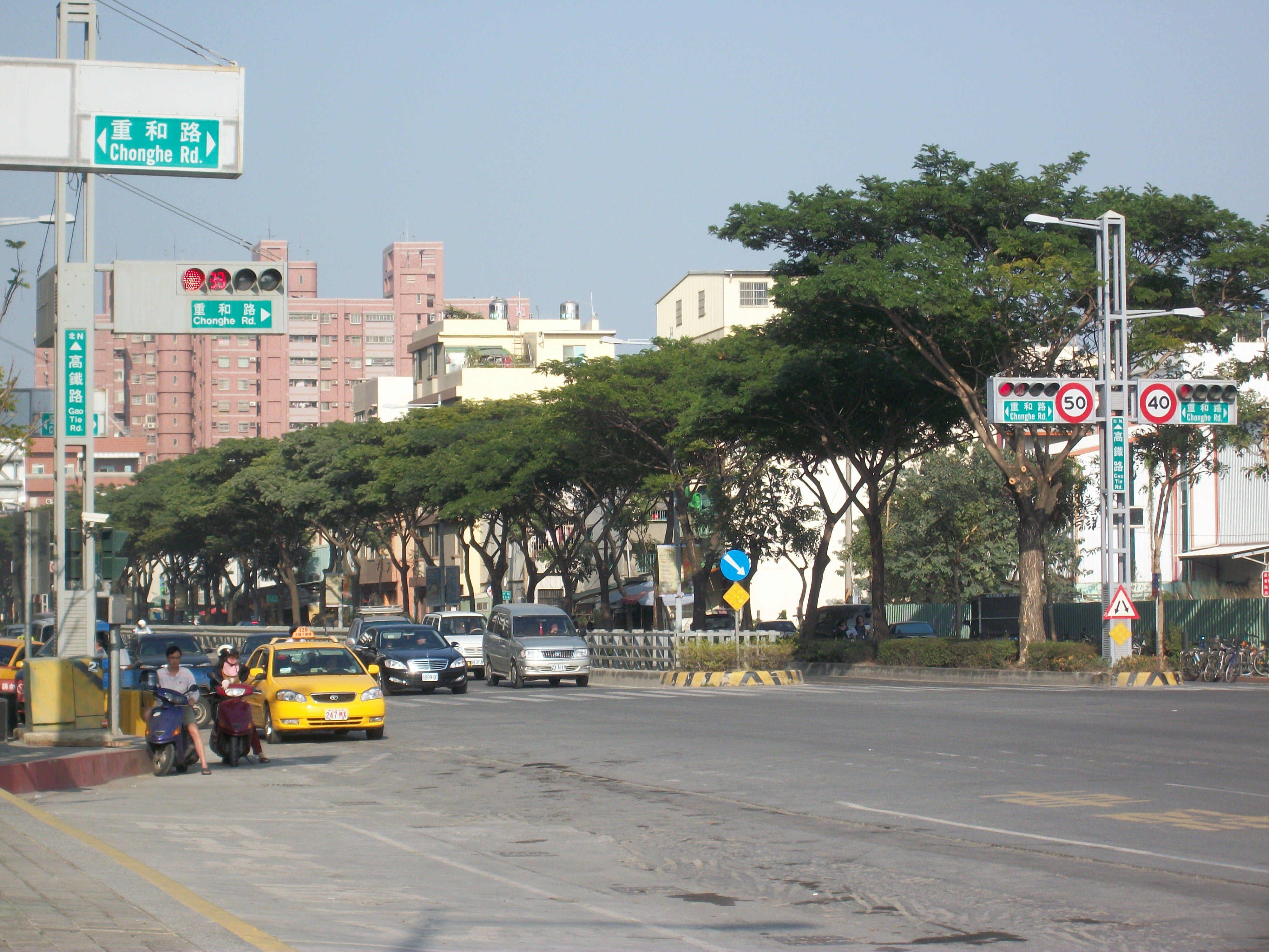 The intersection of Chonghe Road and Gaotie Road in Zuoying District, Kaohsiung City.